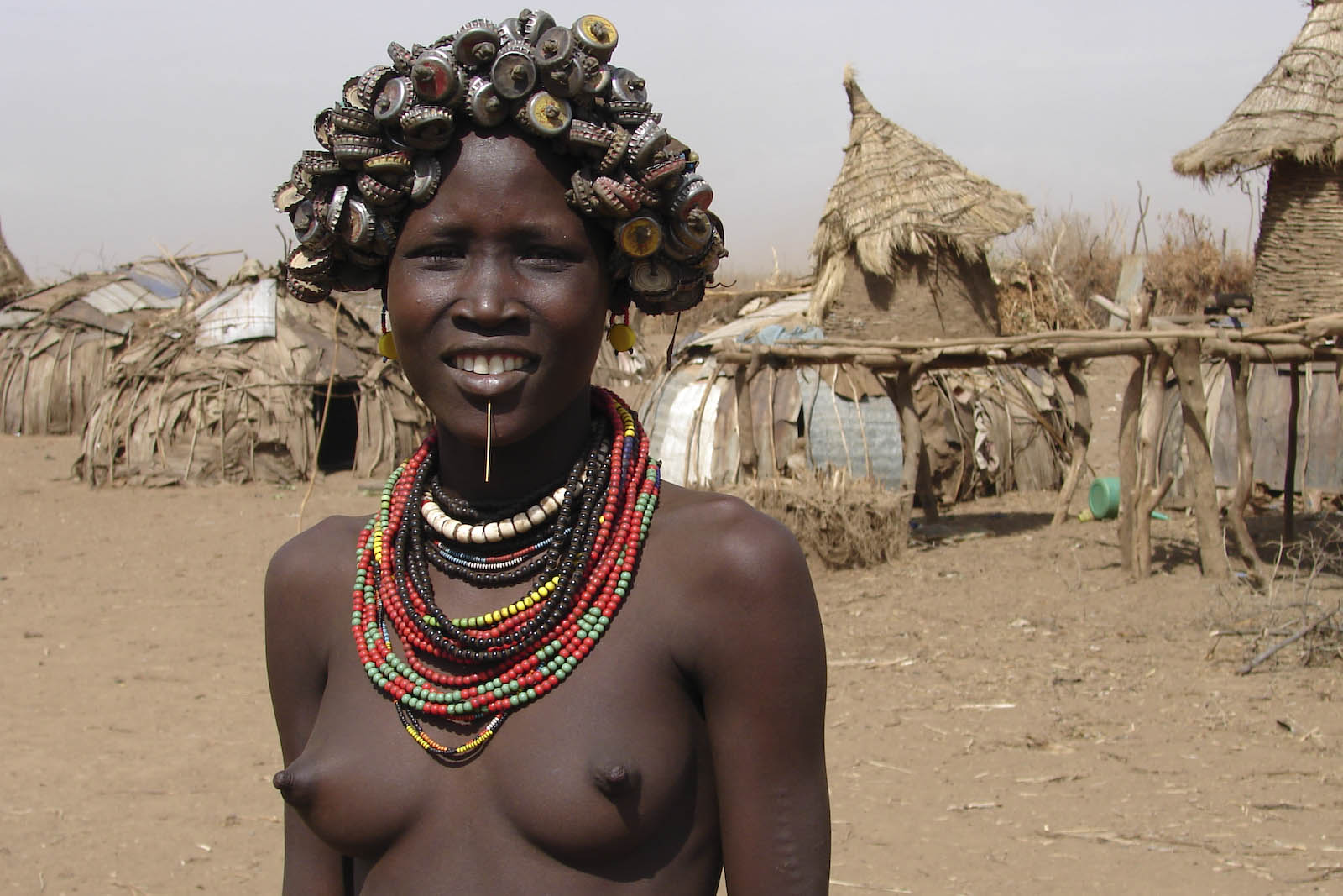 Dassanech tribe (Omorate, Ethiopia)